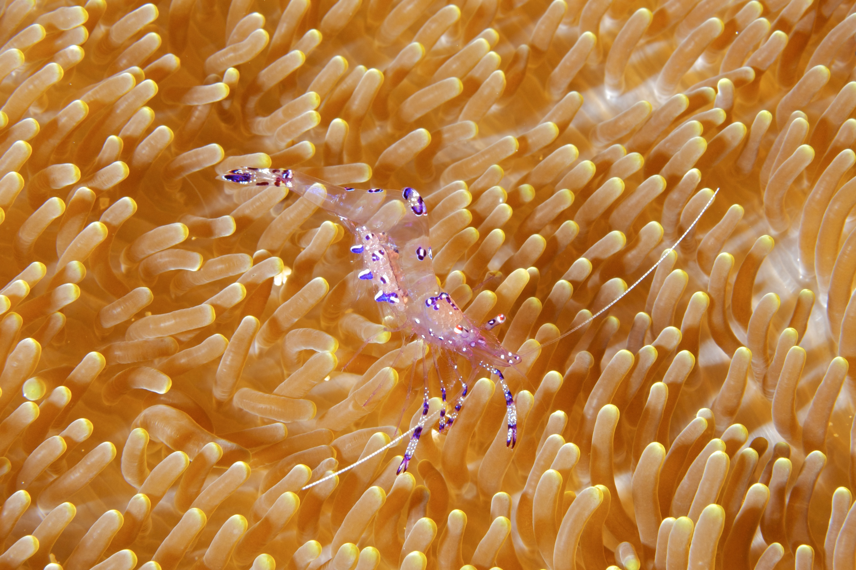 Full body portrait of Sarasvati Anemone Shrimp (Ancylomenes sarasvati). The image shows excellent detail: the internal organs, the hairs in the legs, the texture of the antennae. Taken in Angel Reef, Moyo Island, Indonesia